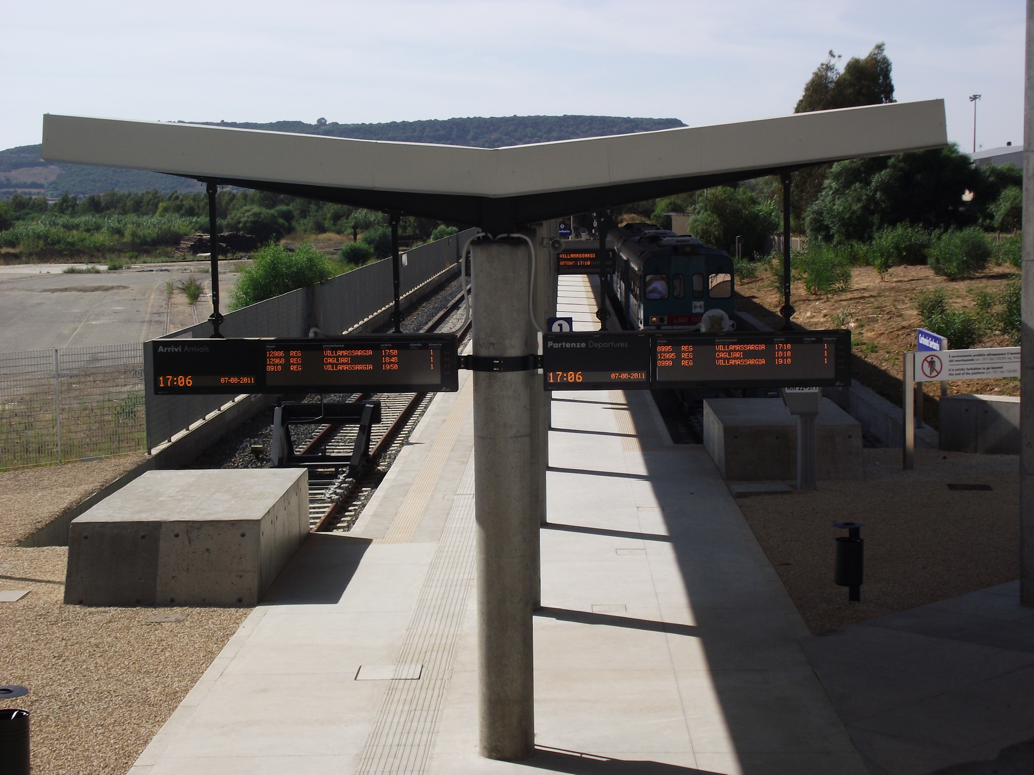 The rail terminal of the Carbonia Serbariu station, in Carbonia, Sardinia, Italy